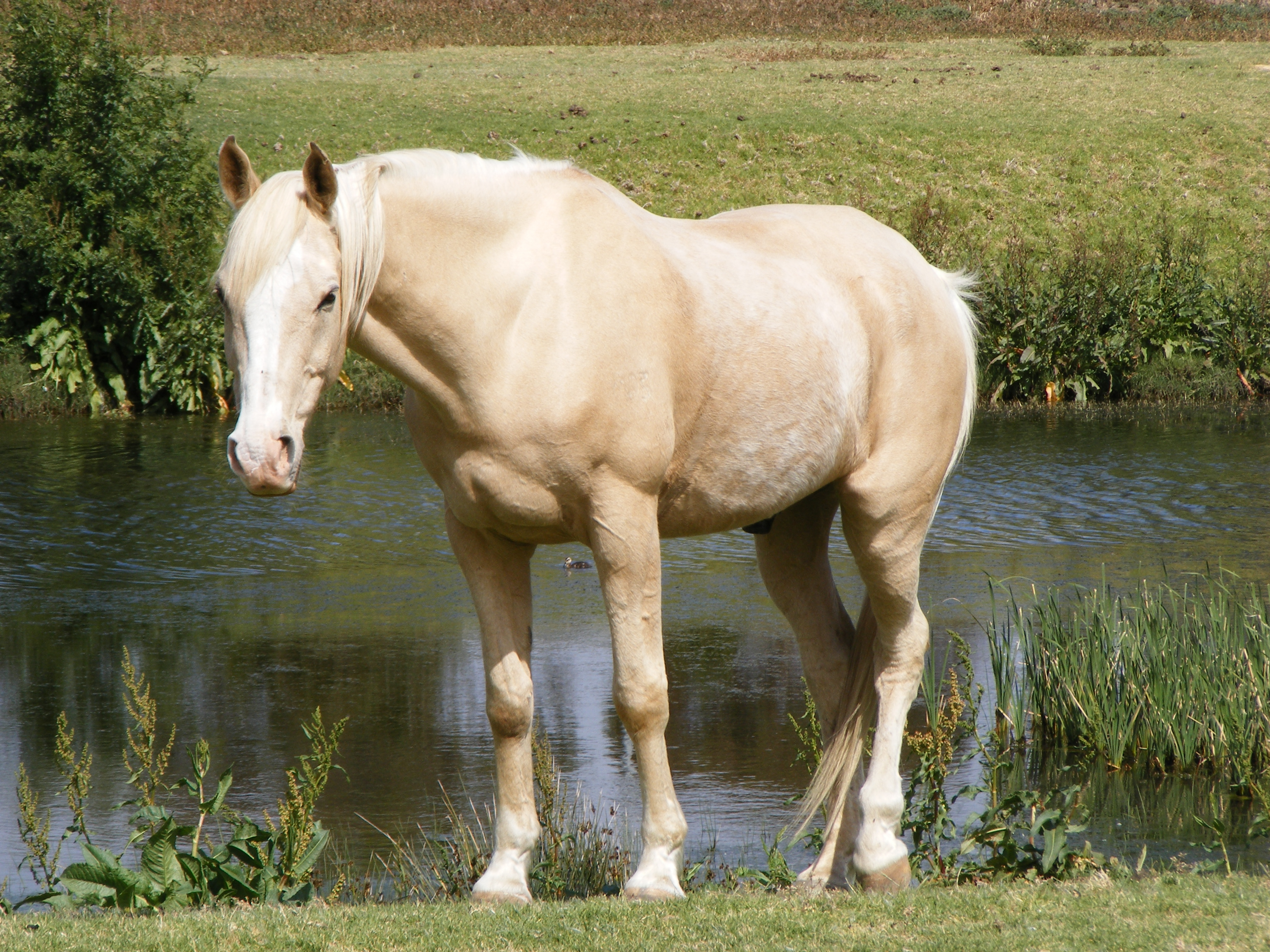 Palamino coloured horse on the banks of Breakout Creek, River Torrens, Adelaide, South Australia